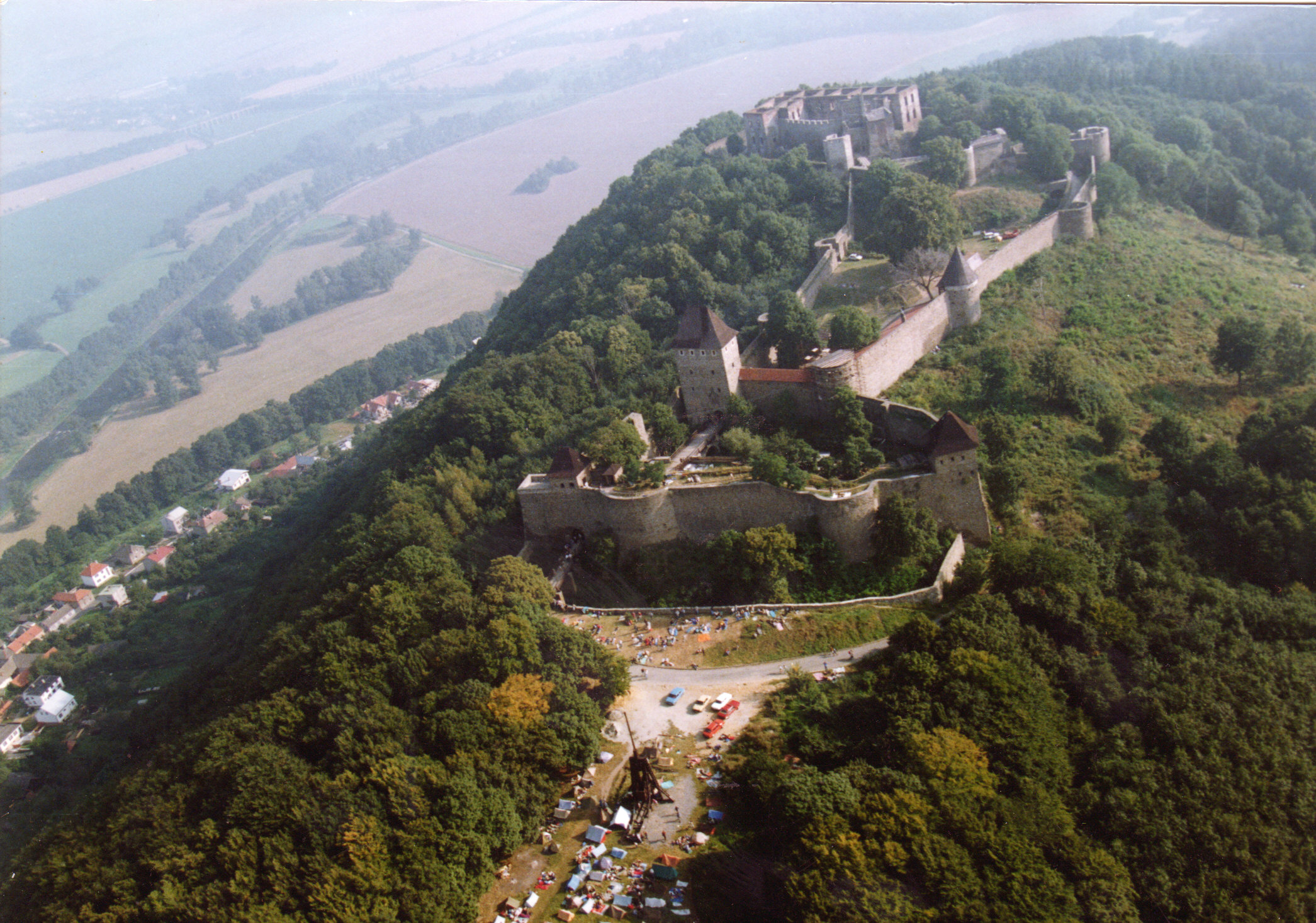 Helfstyn Castle aerial view, with the main gate in the foreground.